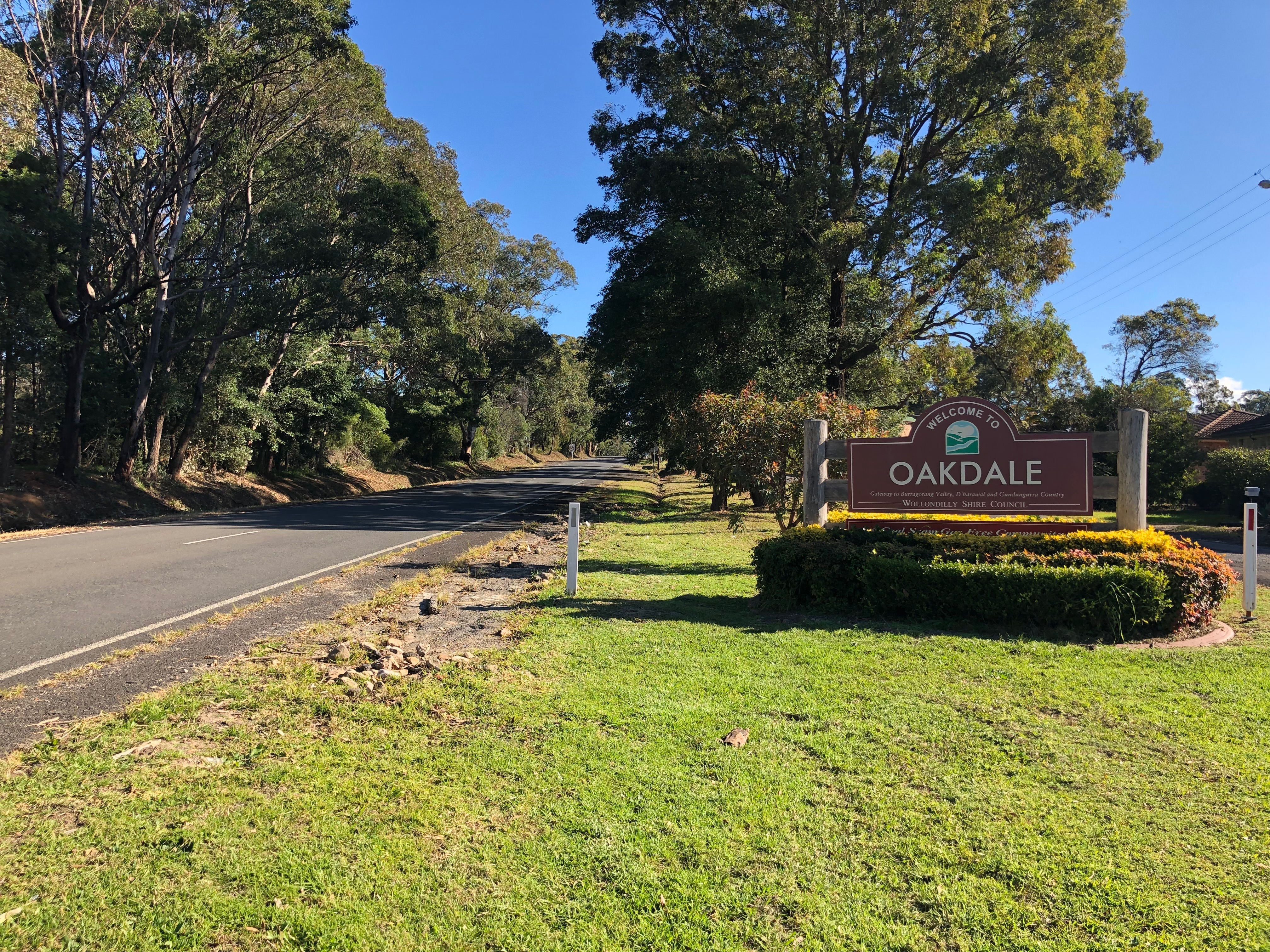 The welcome sign presented when entering Oakdale